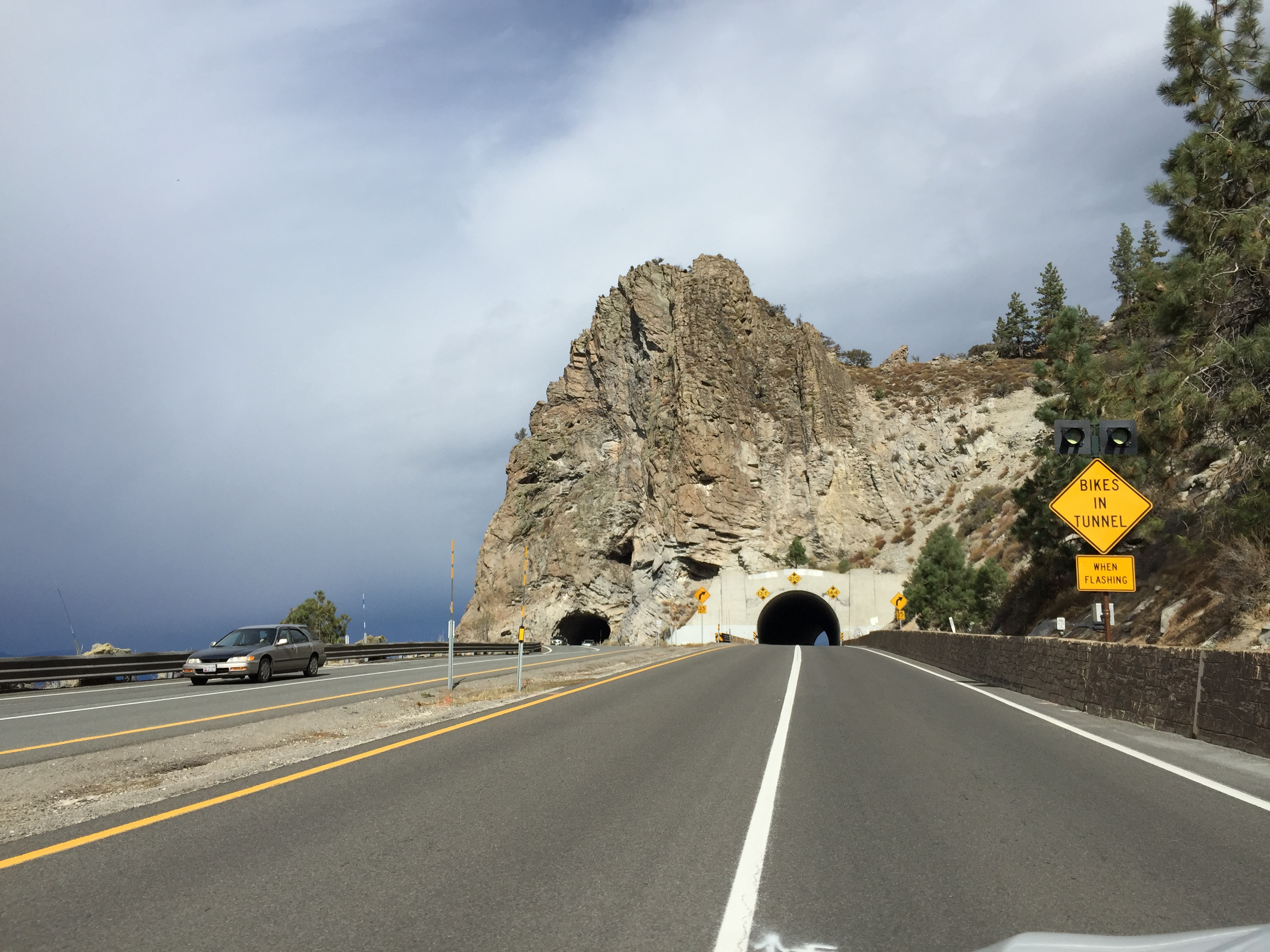 View east along U.S. Route 50 just west of Cave Rock Tunnel in Douglas County, Nevada